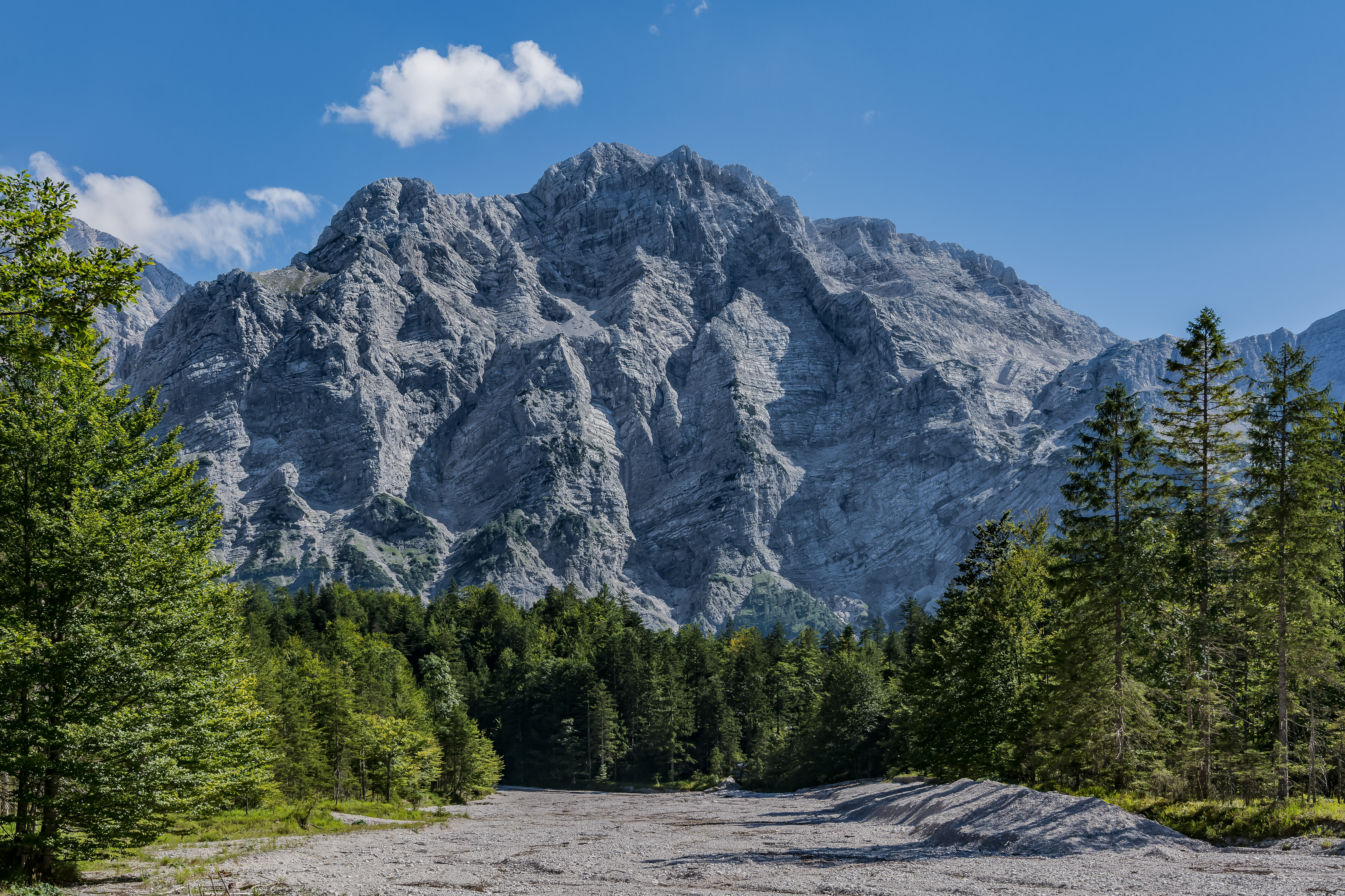 Schermberg (2396 m) is the third highest mountain in the Priel group (Totes Gebirge). Its north face has a hight of 1400 m and is the scond highest wall of the Eastern Alps.